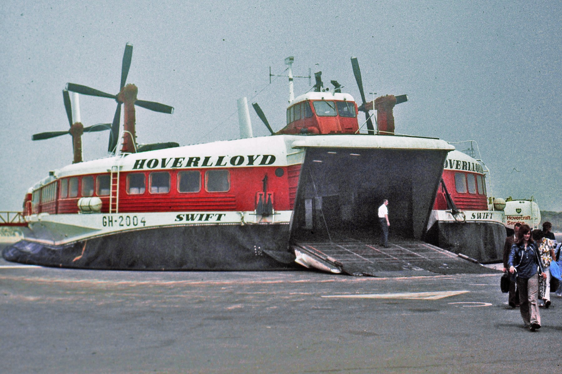 Hoverlloyd hovercraft on an English Channel beach. Other information Photo by George Garrigues.